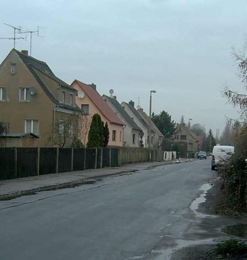 Pönitz bei Taucha, Germany, December 2006, View northwards.